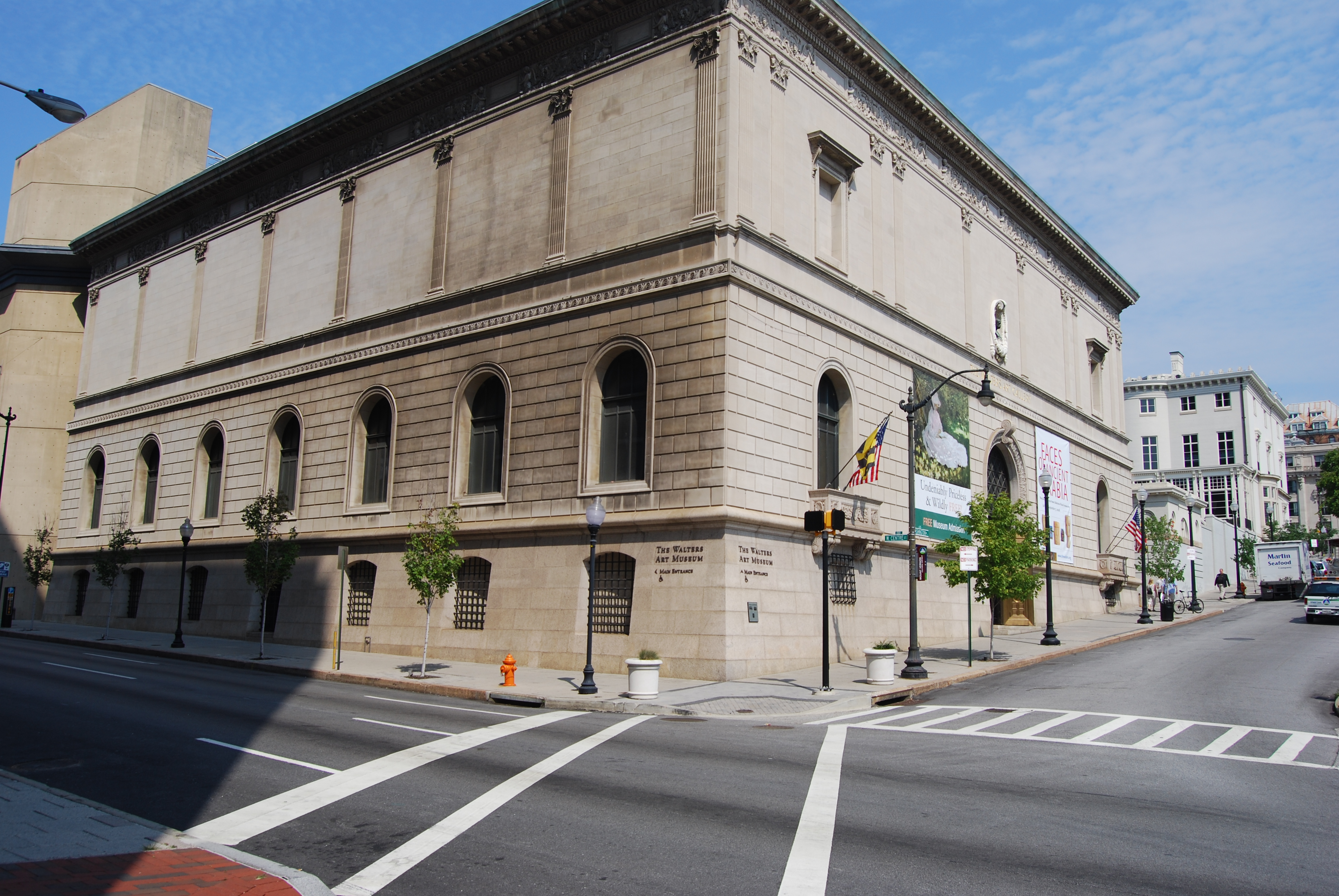 Walters Art Museum